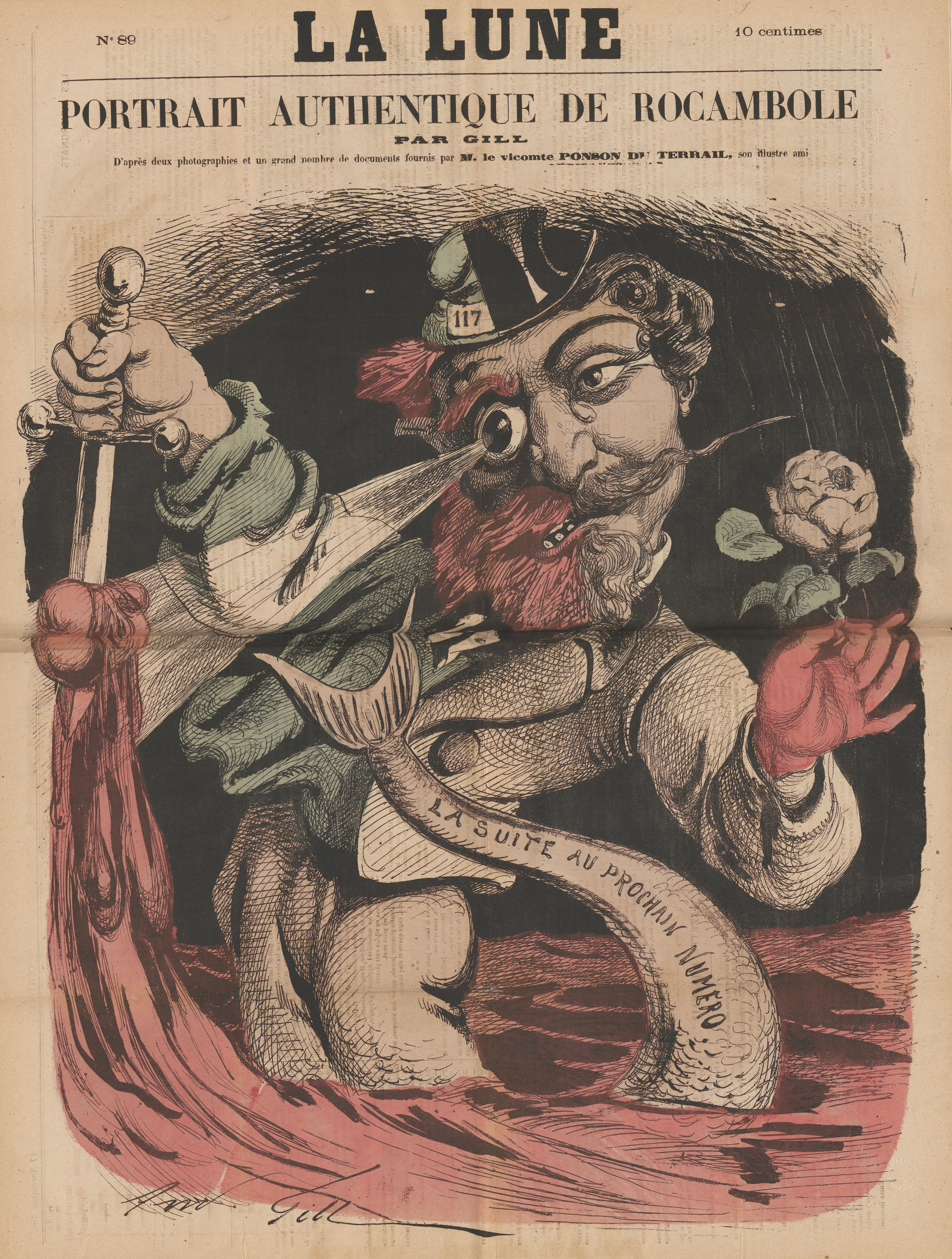 Titre : Portrait authentique de Rocambole Napoleon III as the character Rocambole Hand-colored engraving Published in La Lune 12"w x 18"h